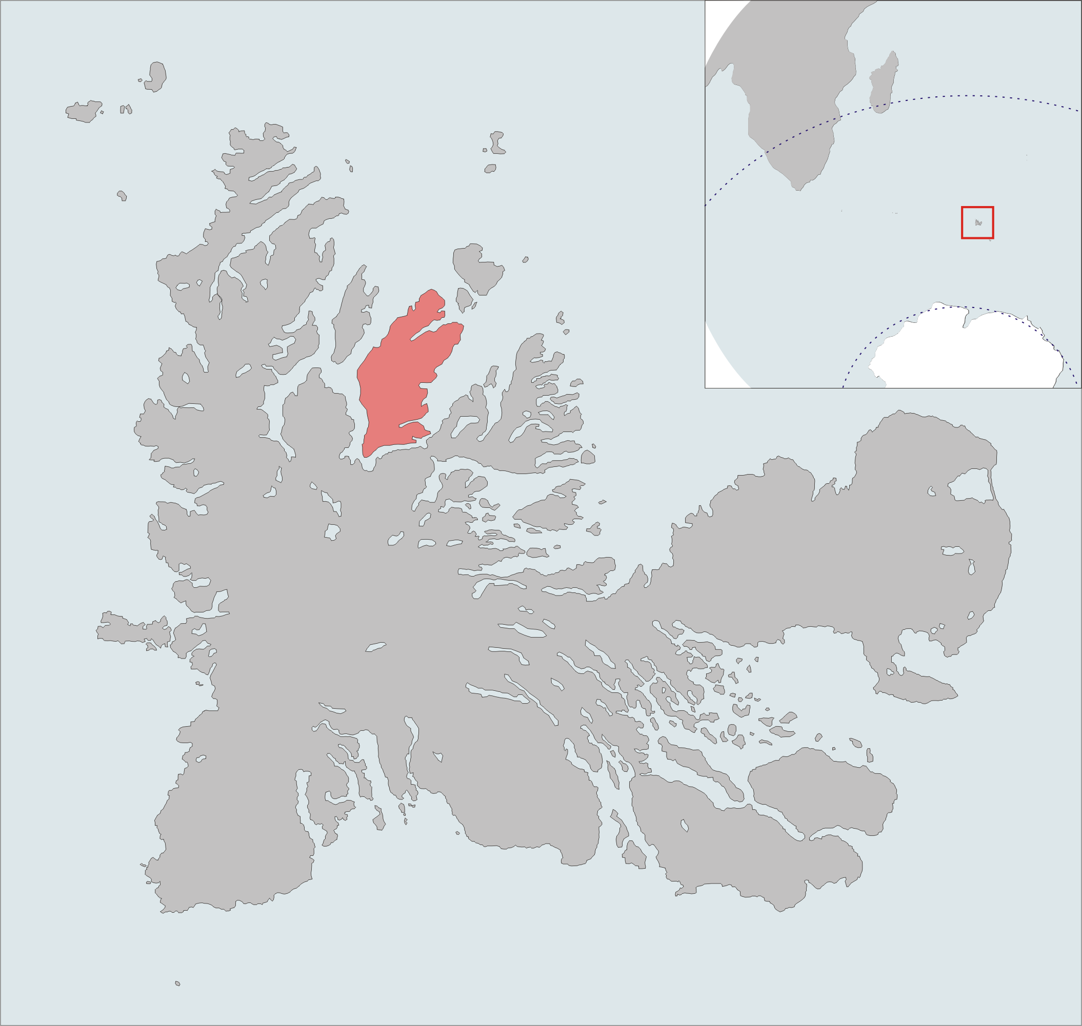 Position of Île Foch, Kerguelen Islands (French Southern and Antarctic Territories) drawn by varp